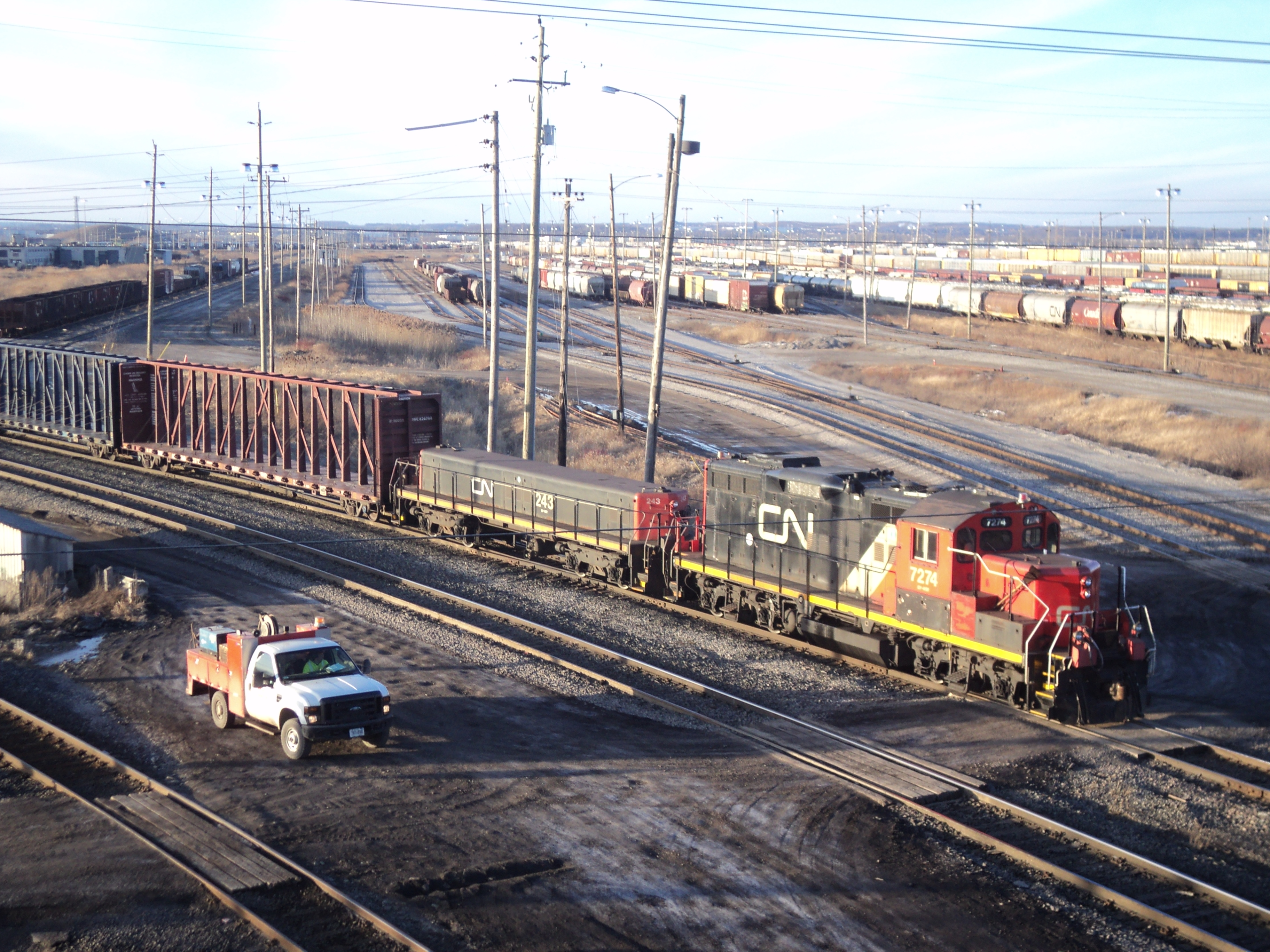 CN GP9RM and yard slug switching in the CN Rail Toronto Yard, in Concord, Ontario.